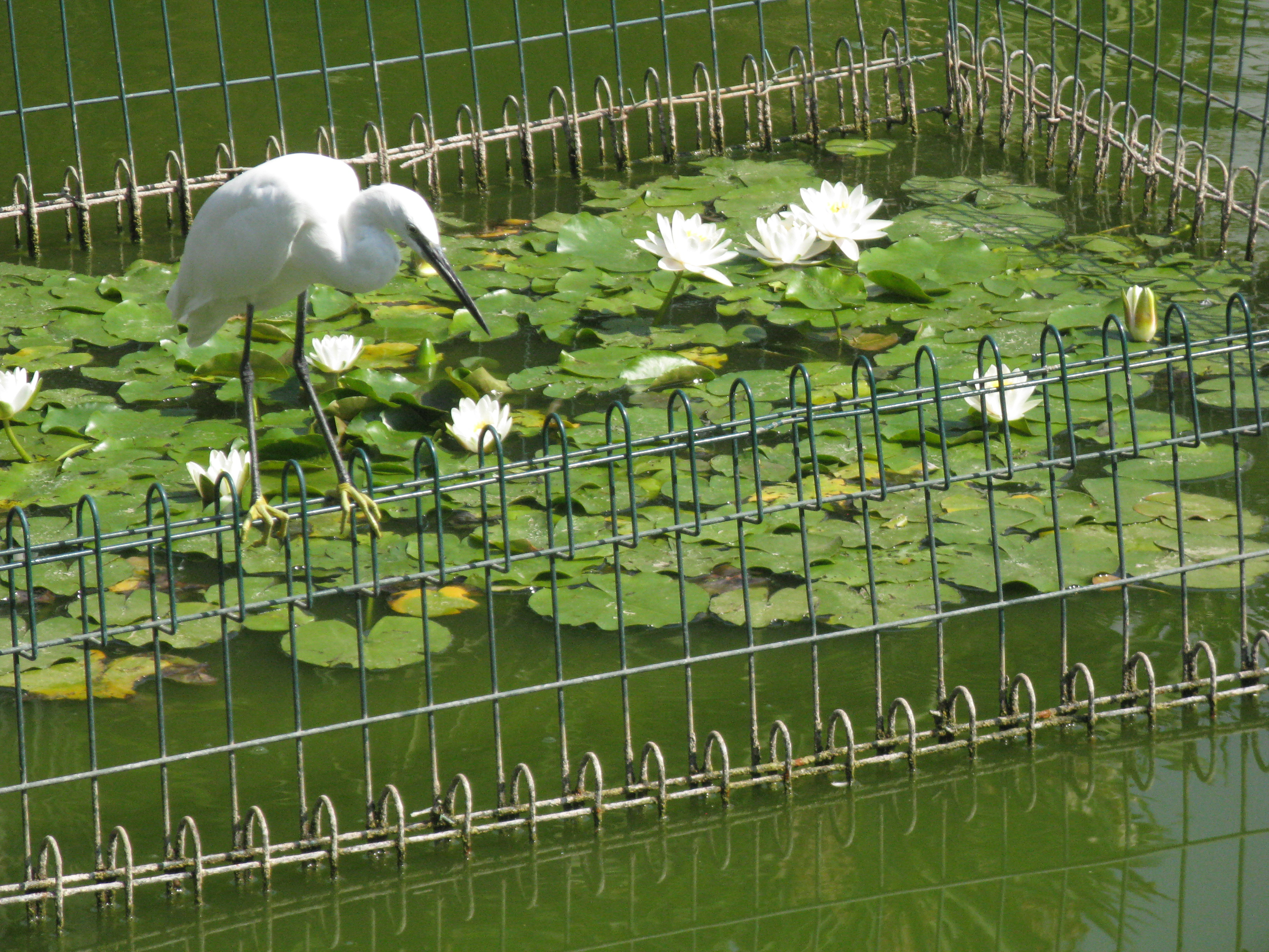 Egretta garzetta